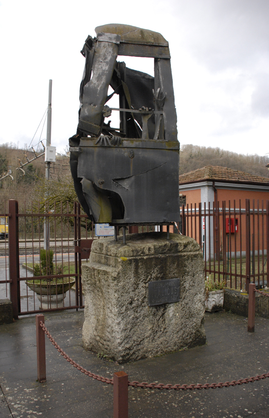 Italicus Express massacre. San Benedetto Val di Sambro, Bologna, Italy. August 4, 1974 1:23 AM. Commemorative monument.